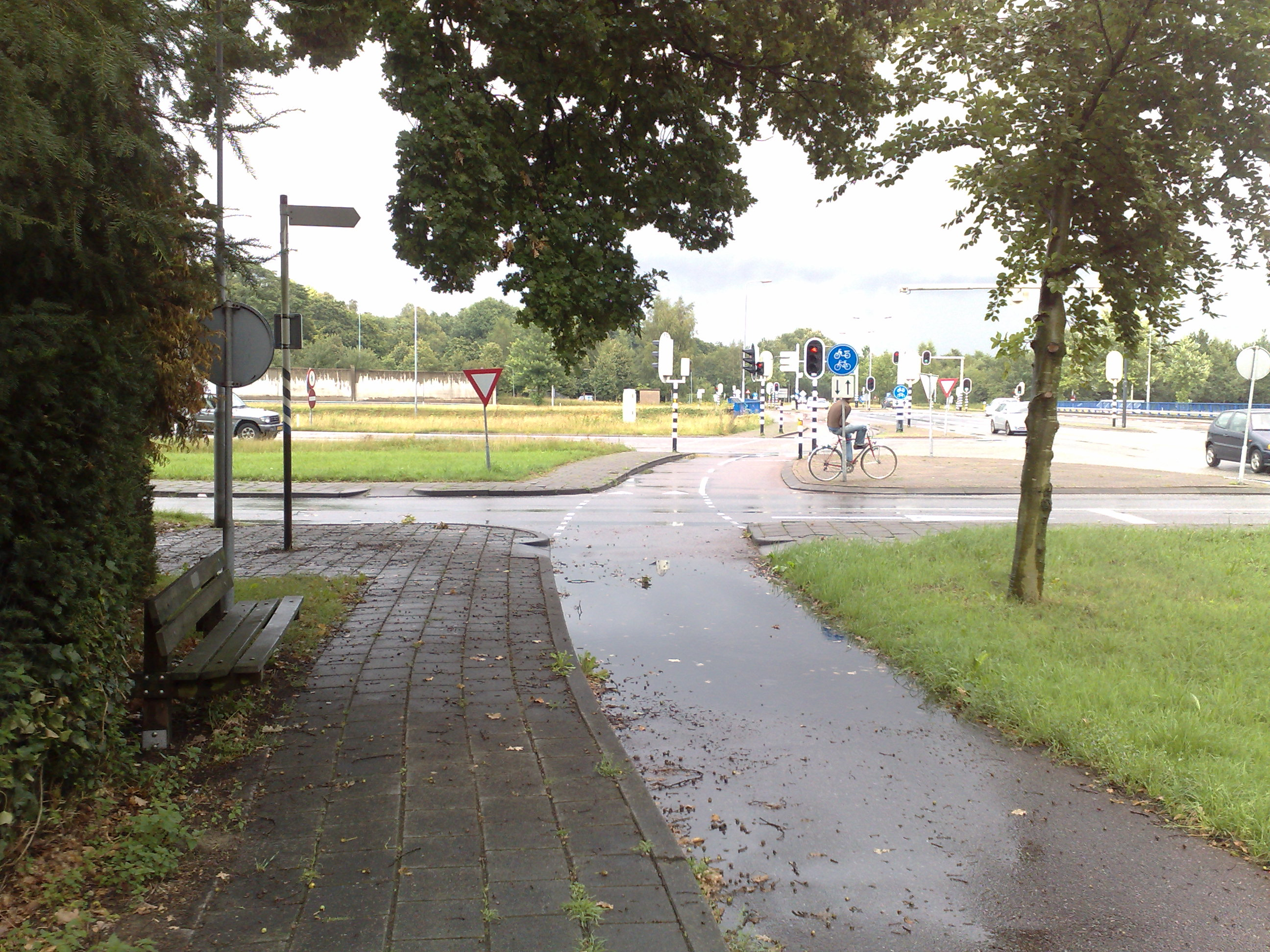 Bench to commencorate Piet Schuurman, in Vucht, NL, near the crossing of the Glorieuxlaan and the A2 highway.